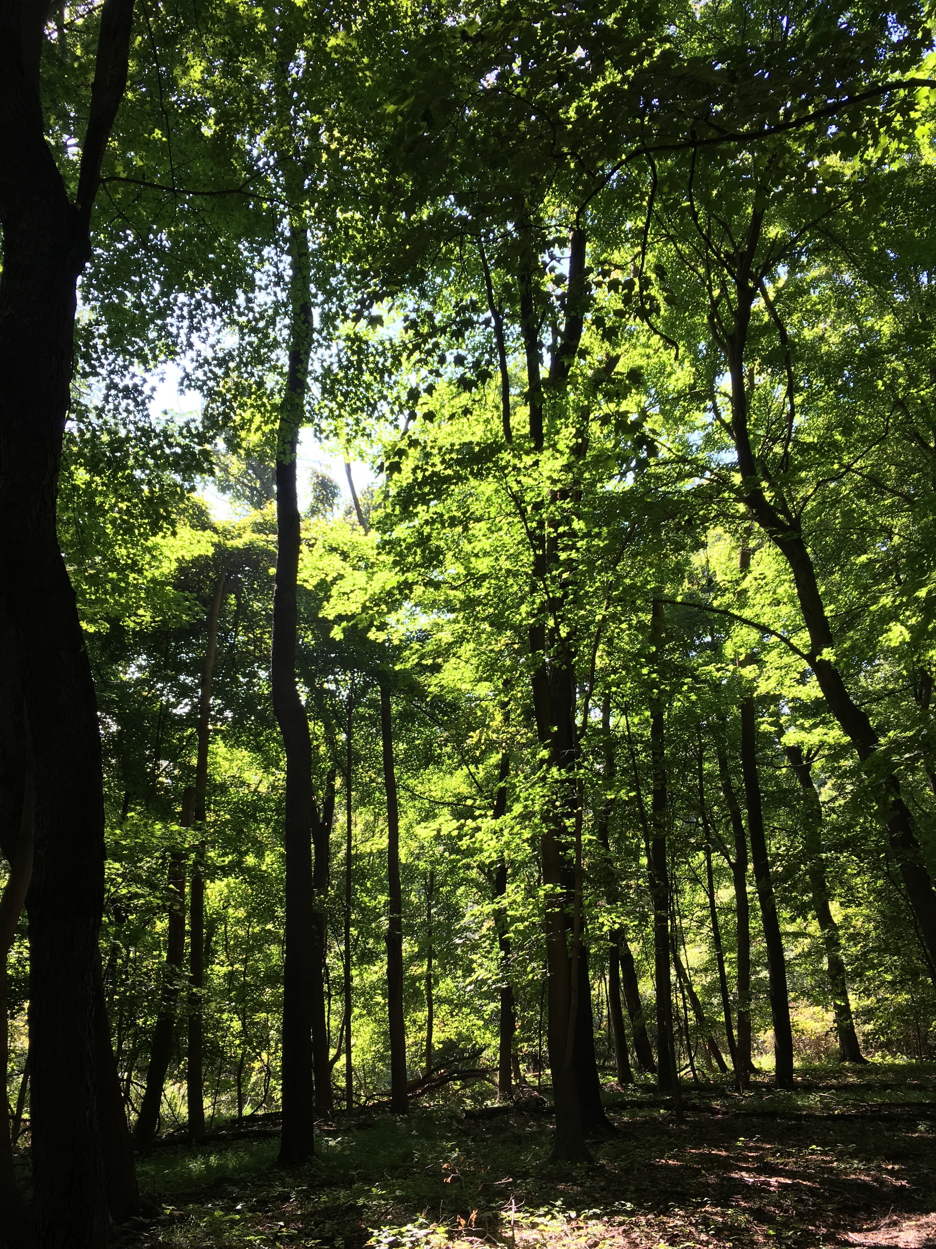 An example of the forested sections of Allegheny County South park, the southern tip of the park is mostly forested and has many hiking trails.